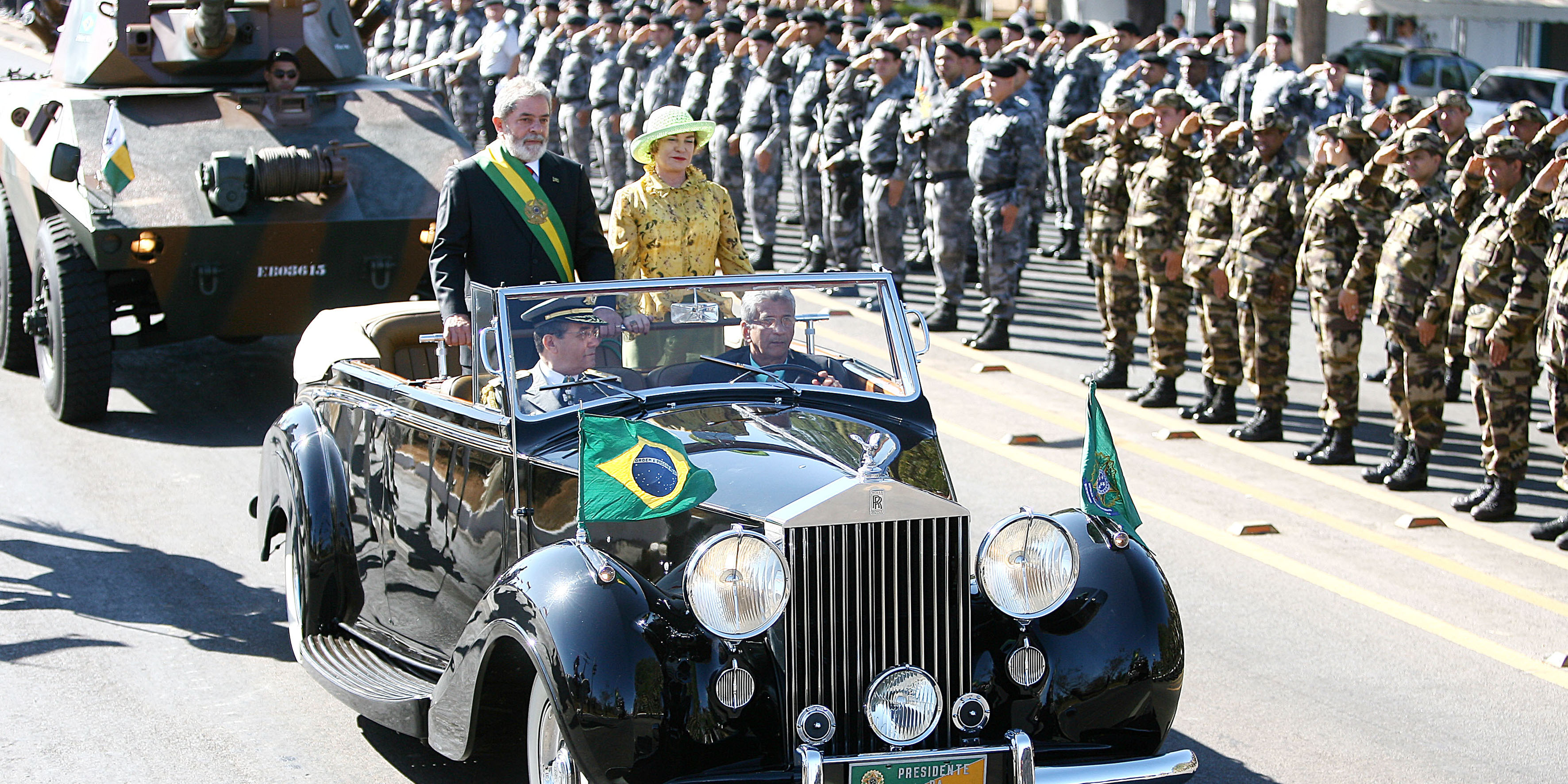 President Lula at Independence Day commemoration (2007)